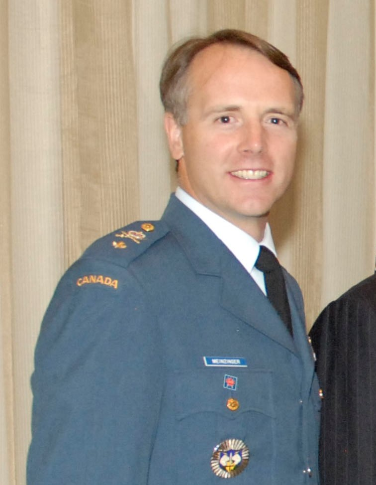 Canadian Brig.- Gen. Al Meinzinger at the NORAD and U.S. Northern Command Missile Warning and Defenders of the Year formal ceremony on May 3, 2013 in Colorado Springs. The event honored top-performing military and civilian personnel at the headquarters who perform work on or in support of missile defense systems.